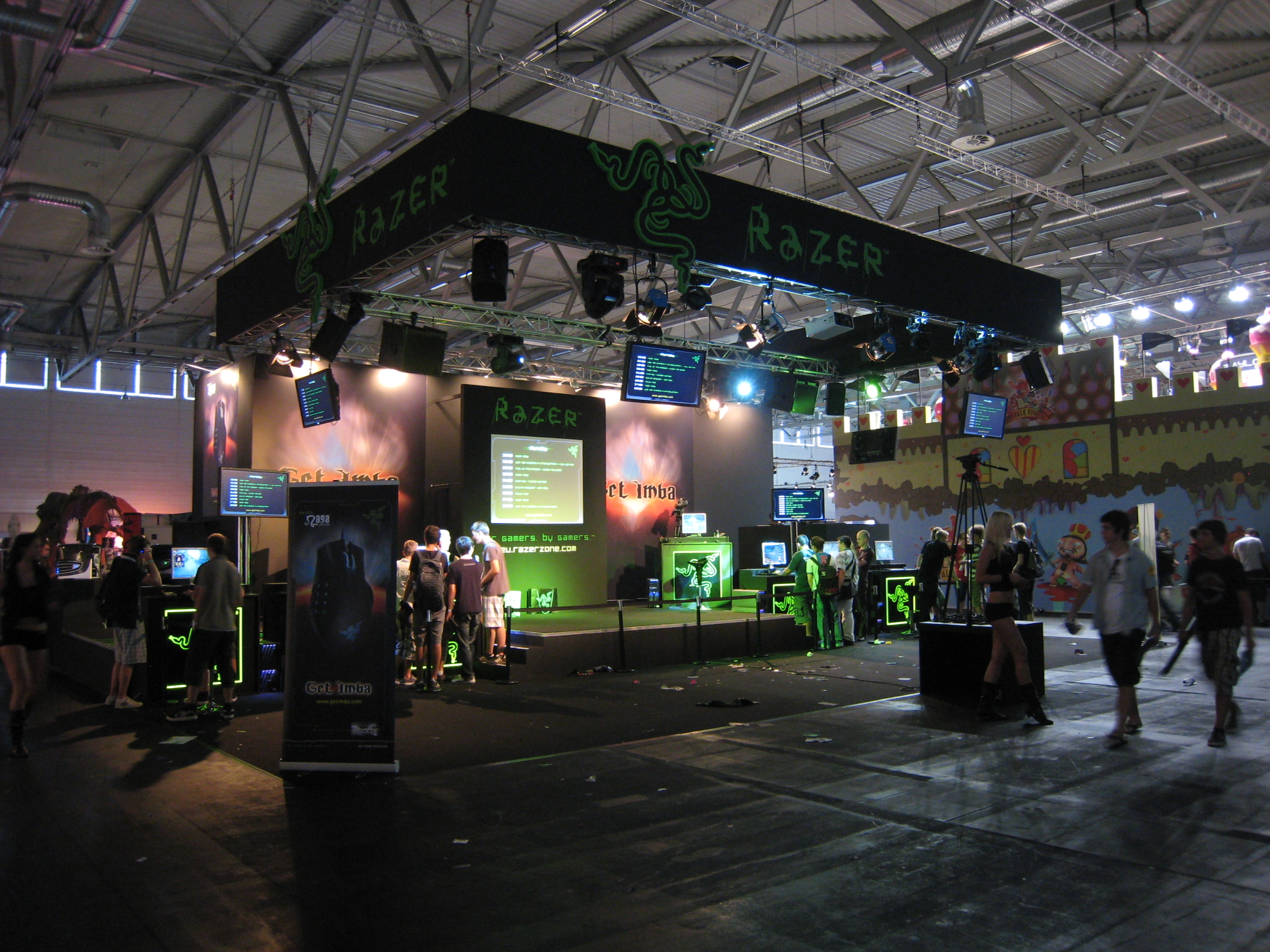 Razer's booth at the Gamescom 2009